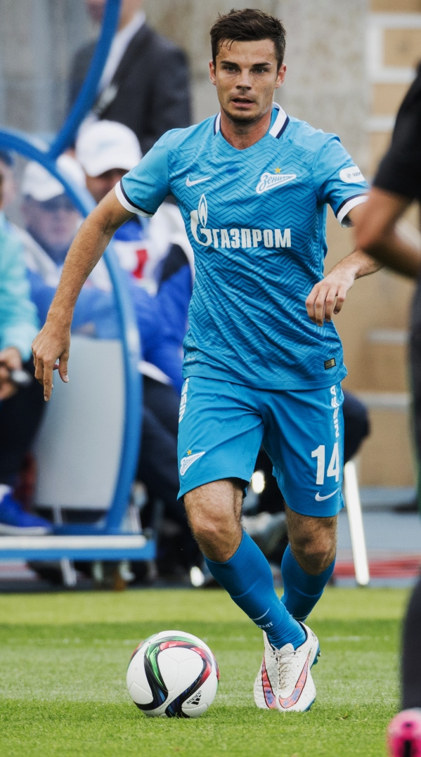 Artur Yusupov